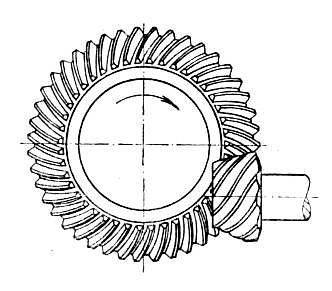 Hypoid bevel gear and pinion. Commonly found in the rear drive axles of cars and trucks.